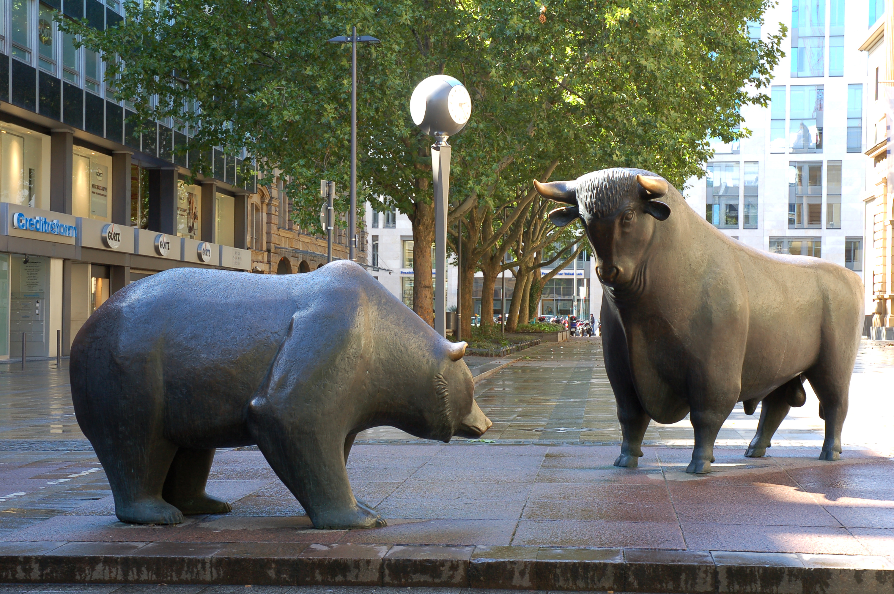 Bull and bear in front of the Frankfurt Stock Exchange by the sculptor Reinhard Dachlauer.